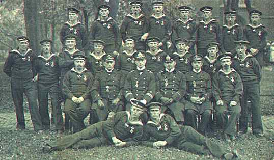 The crew of U-9 after the decoration with the Iron Cross - Kptlt. Otto Weddigen is seated in the 1st row, 3rd from left